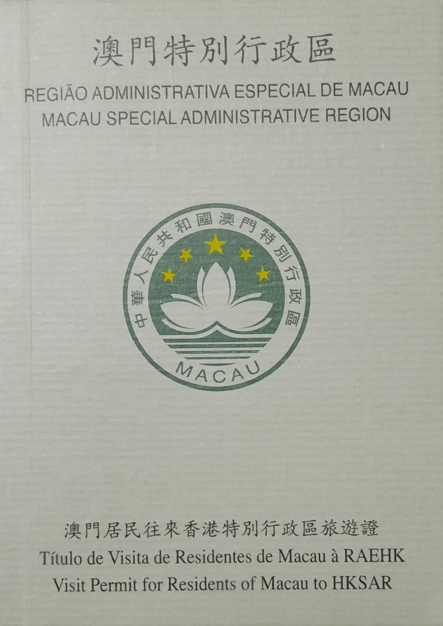 Visit Permit for Macau residents to Hongkong